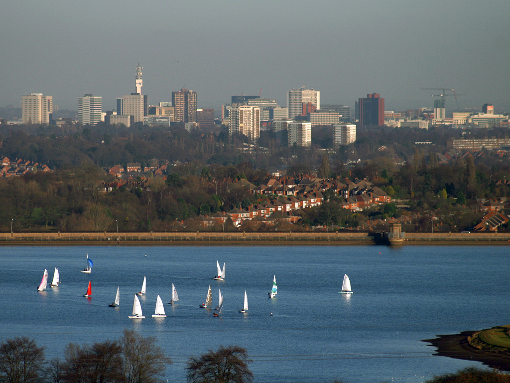 The skyline of Birmingham, England with Bartley Green reservoir in the foreground.